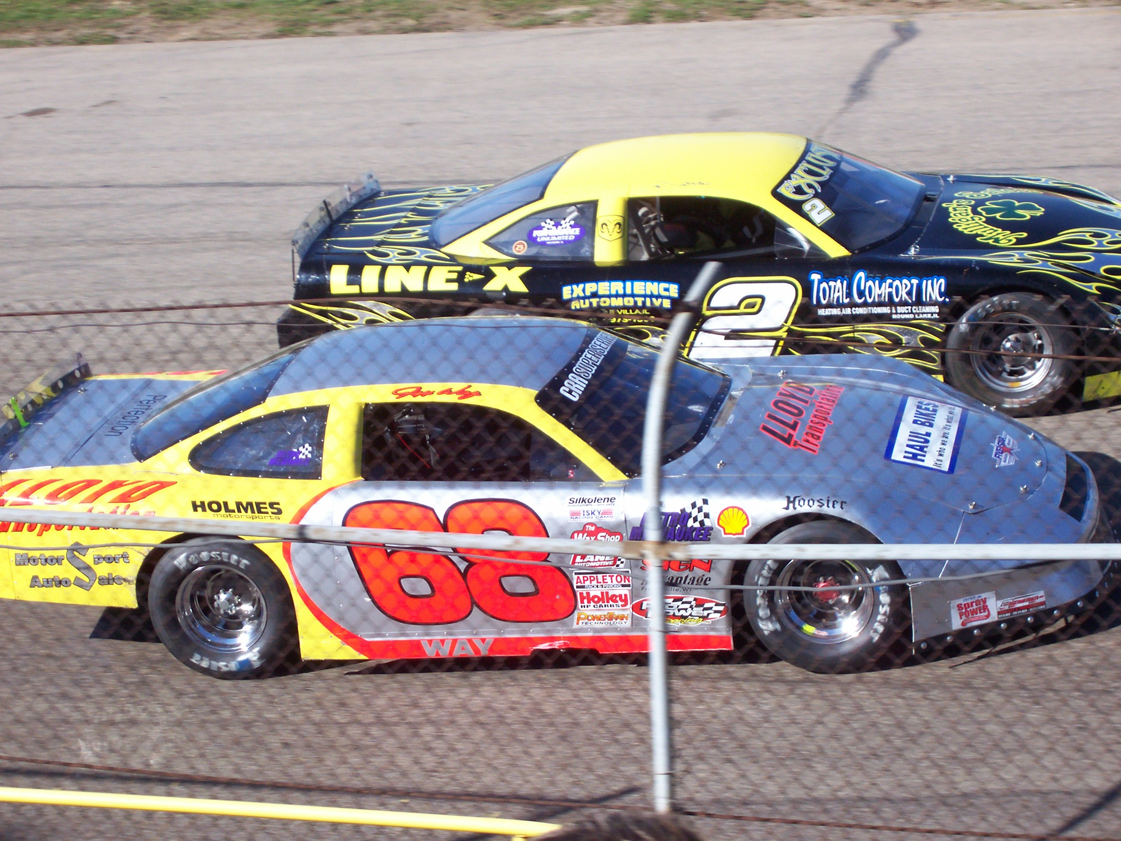 The #68 car of Jim Way from the CRA Super Series at the final stockcar races at Lake Geneva Raceway. The other car is not necessarily a CRA Super Series racecar.Lake Geneva Raceway (10.1.06) CRA Superseries